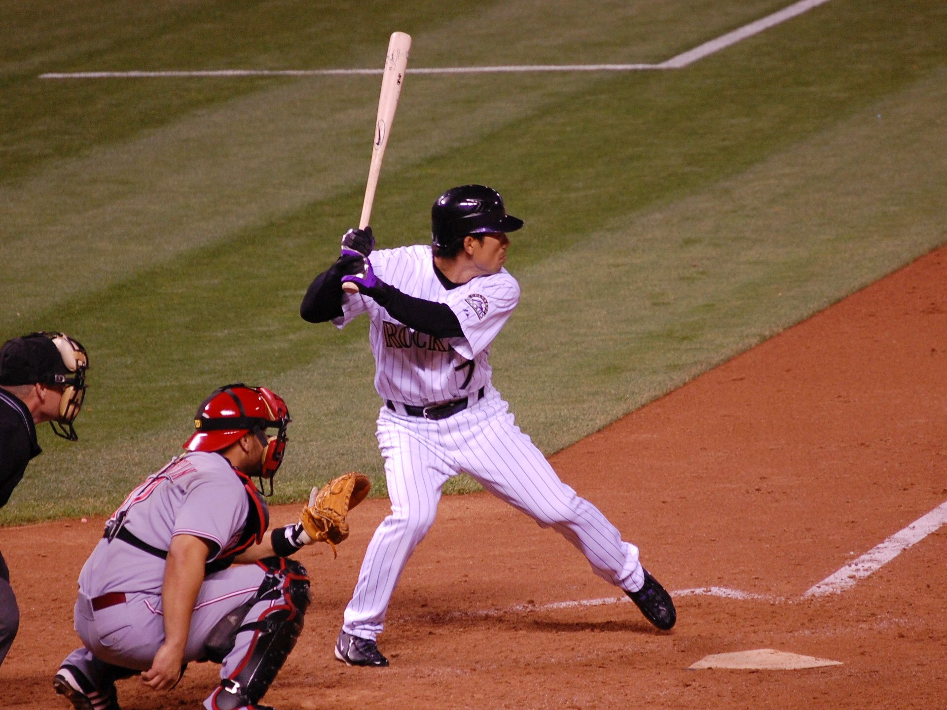 gfdl, own work 11:30, 4 June 2007 . . Onetwo1 . . 1920×1440 (651,243 bytes)